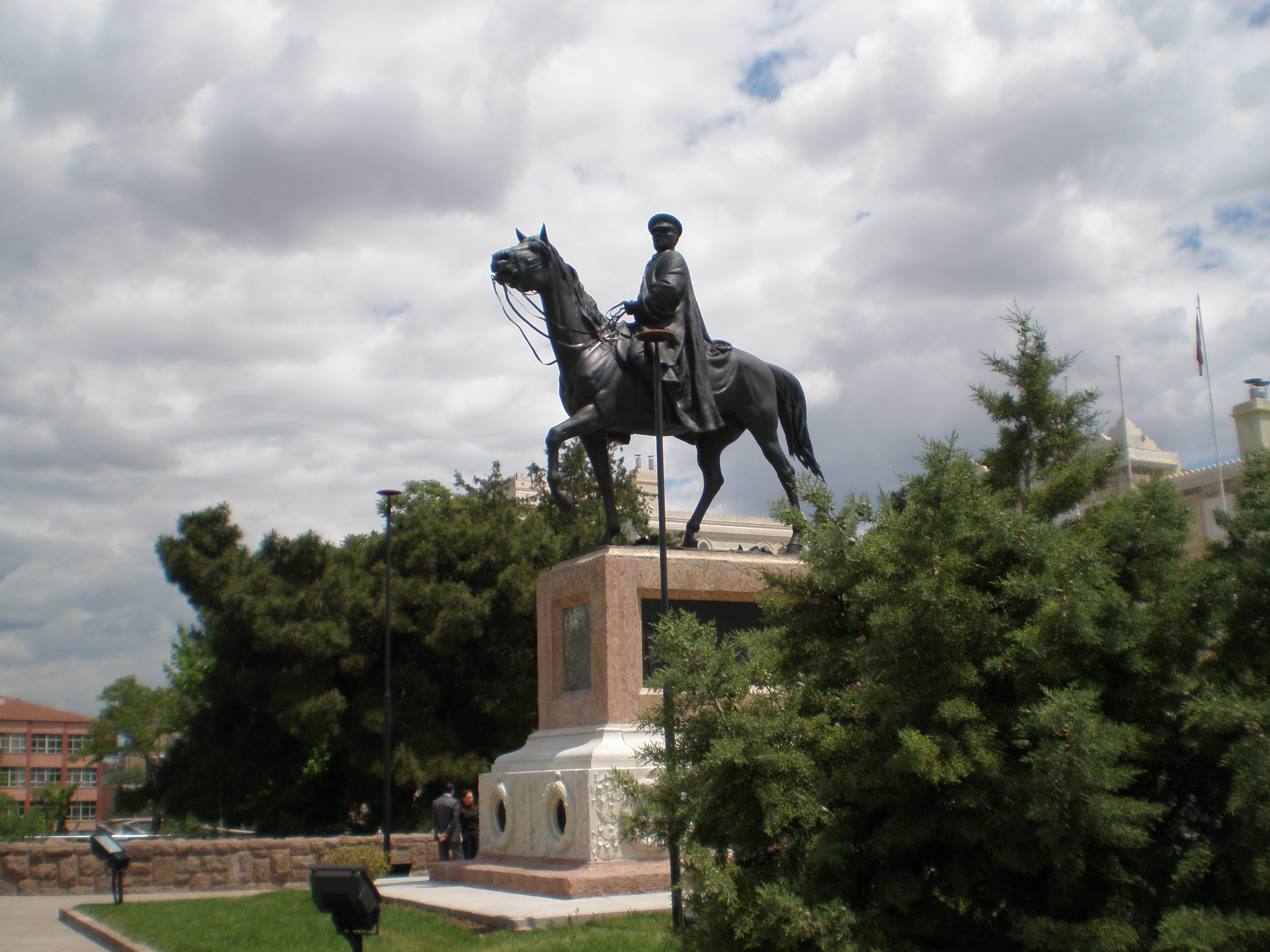 Ataturk statue